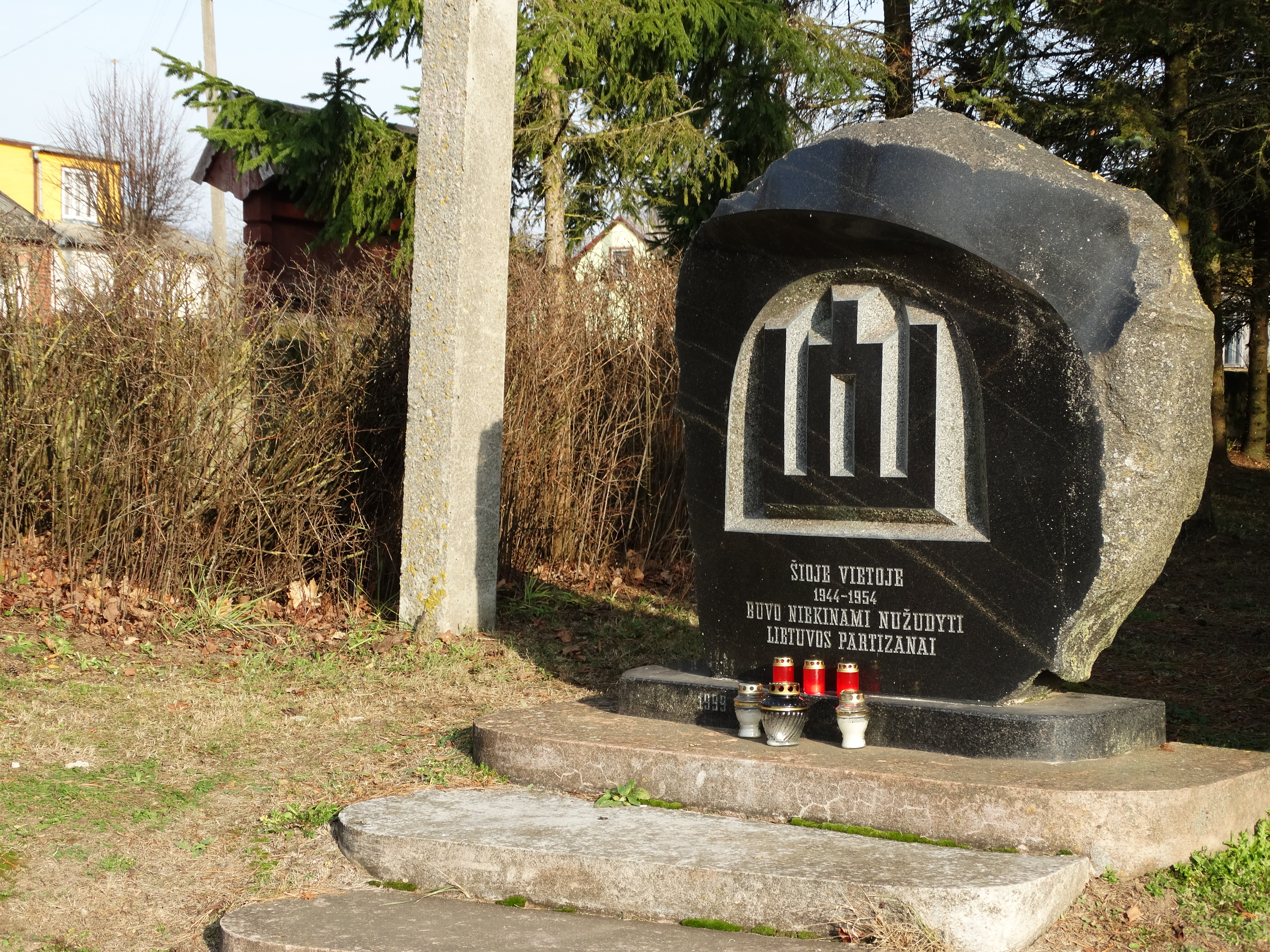 Stone to the partisans, Pabiržė, Biržai district, Lithuania